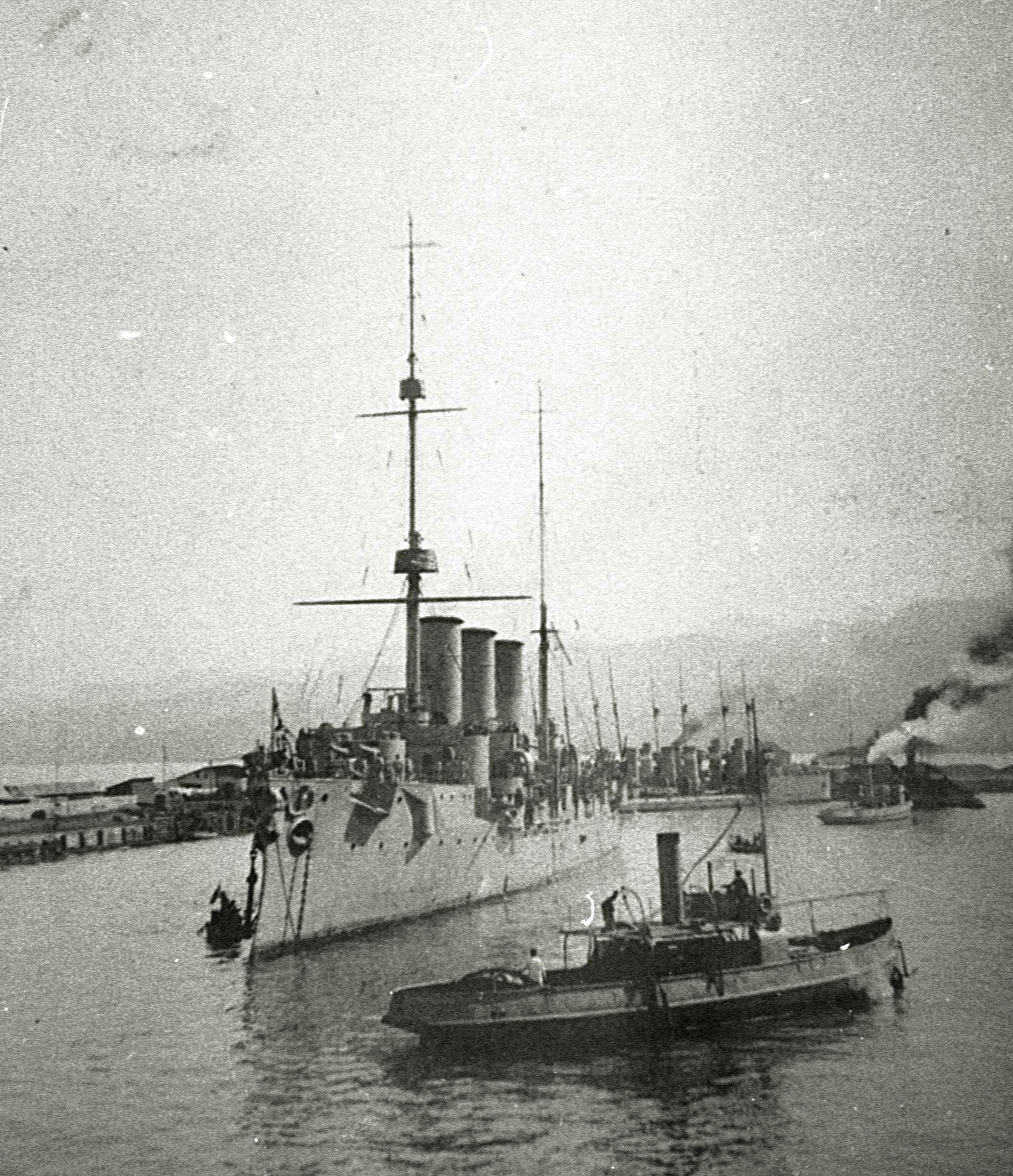 The Imperial Russian cruier Kagul at Batumi.